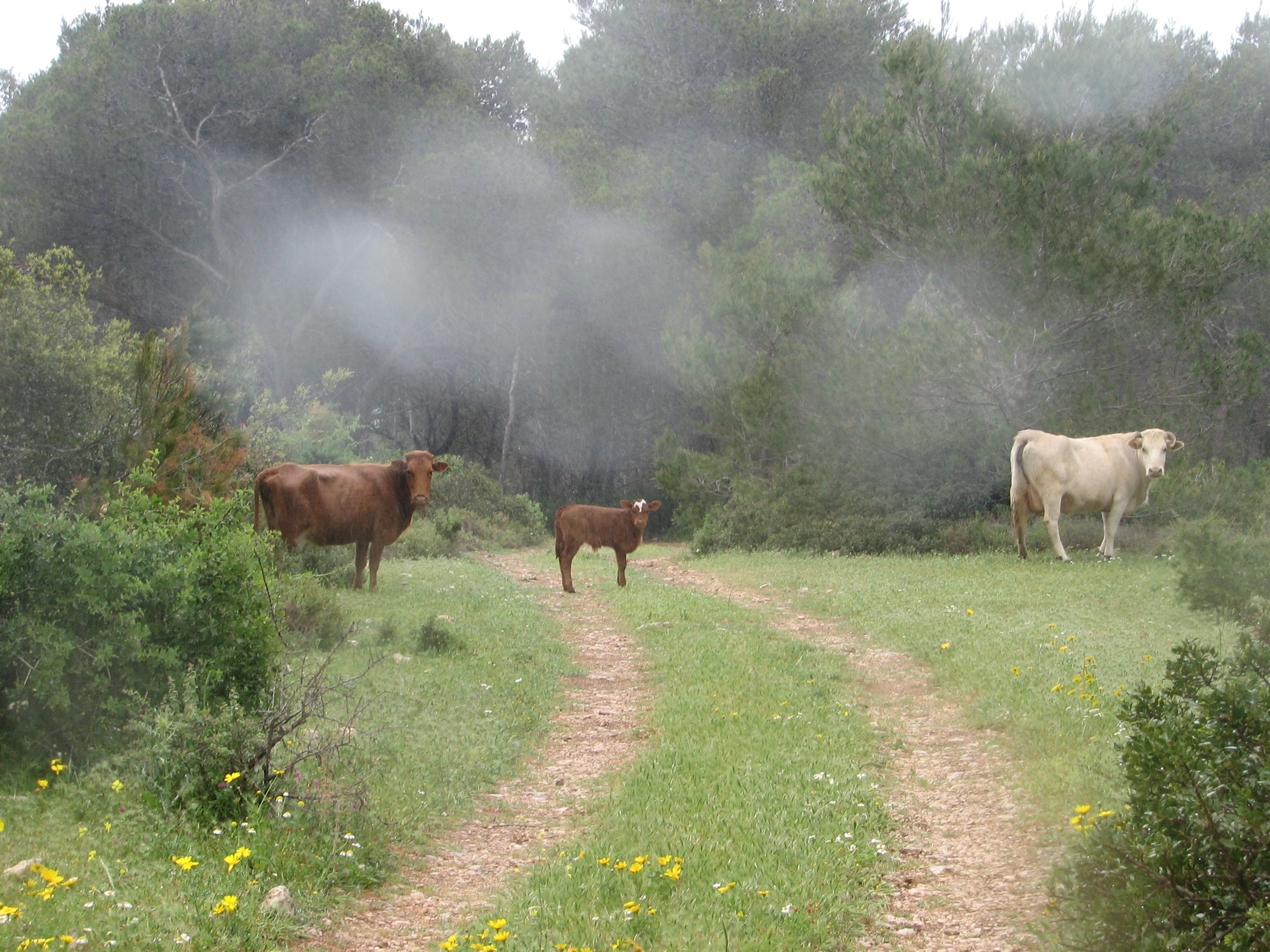 A piece of cloudy nowhere-dream, at Neder Stream, Carmel National Park south of Haifa Israel.